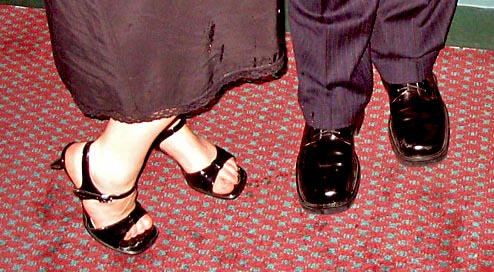 Photographed 2006-01-01 by Flickr user The L-Word[1]. Edited by Daniel Case and cropped to focus on the two pairs of dress shoes in the image.